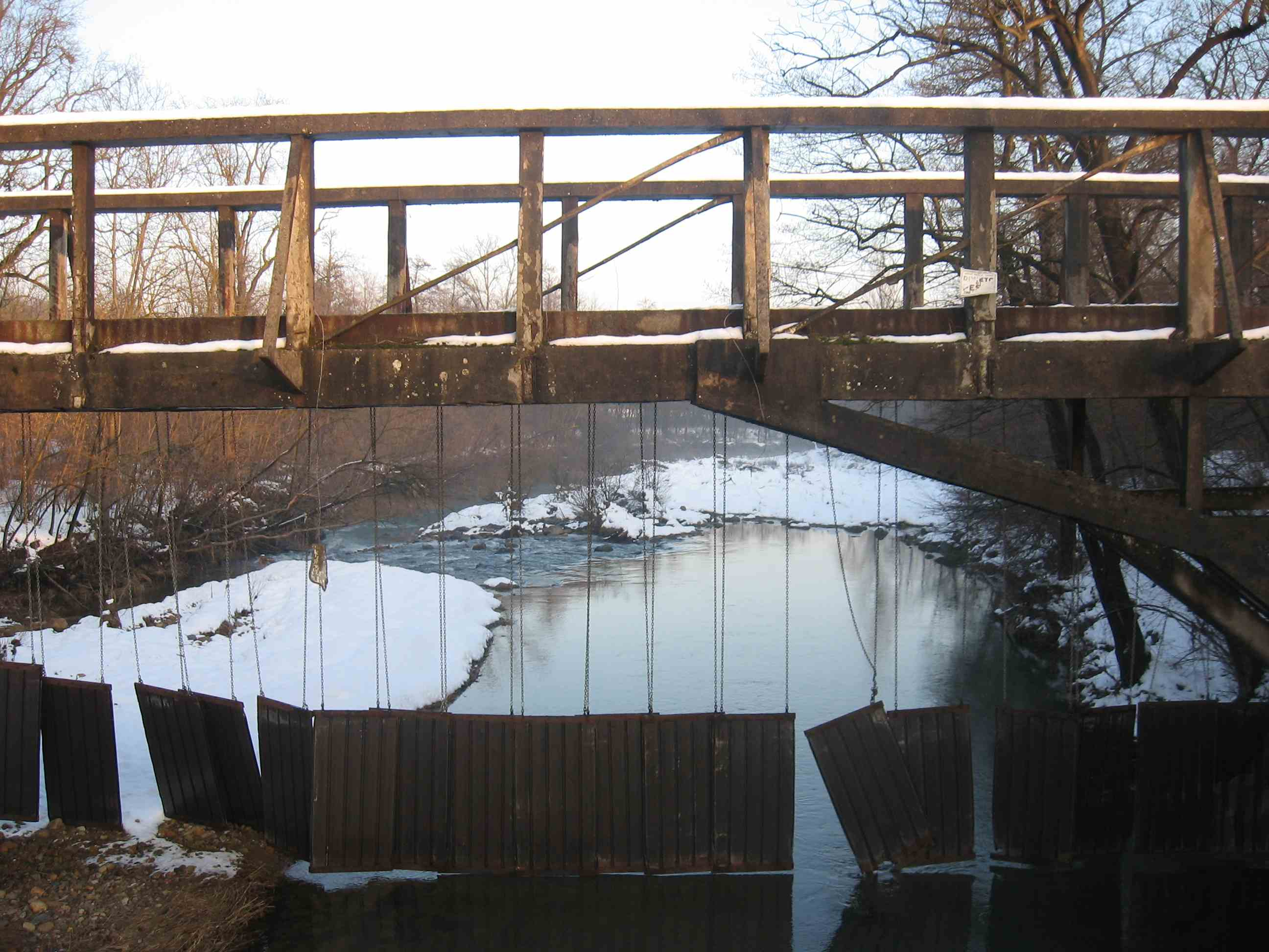 The Ceronda creek at the entrance of "La Mandria" nature park (Piedmont, Italy)